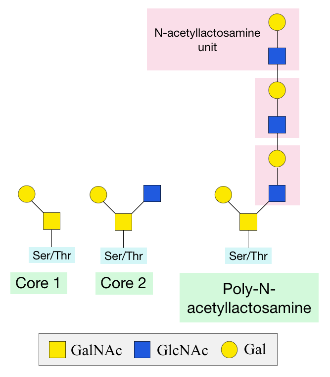 Sugars involved in the formation of Core 1, Core 2 and poly-N-acetyllactosamine structures common in O-GalNAc glycosylation.